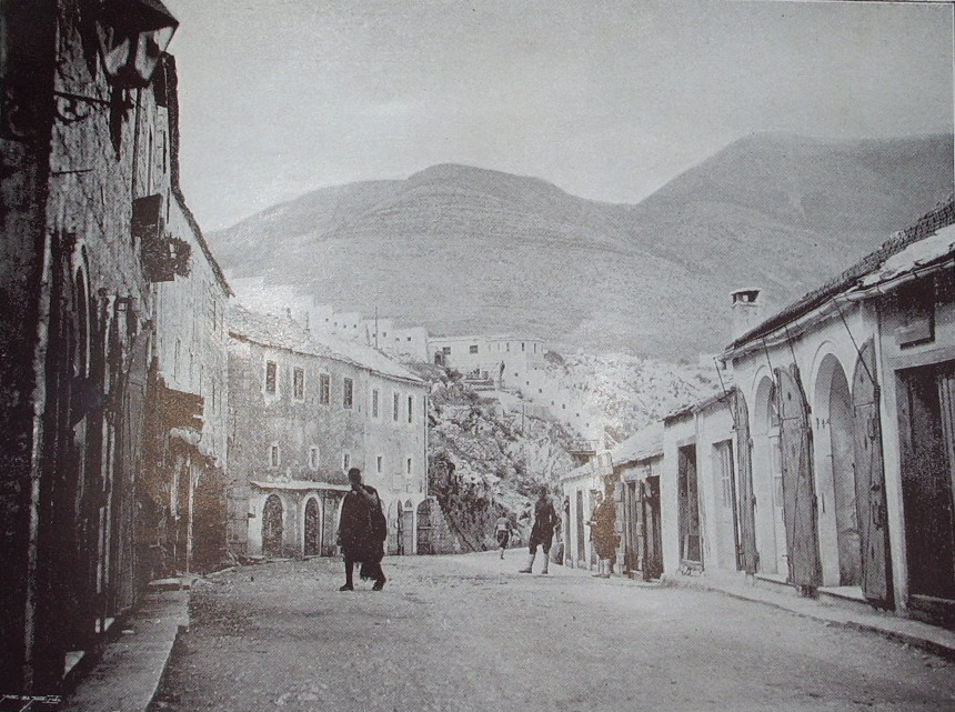 Trebinje in early 1900s